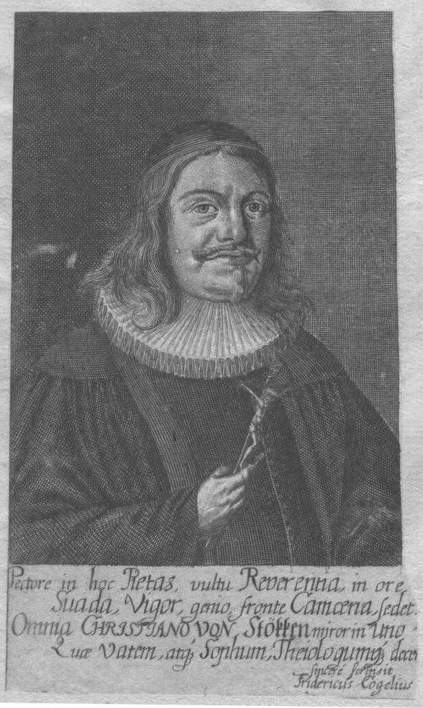 Portraot of Christian von Stökken, engraving 113x80 mm